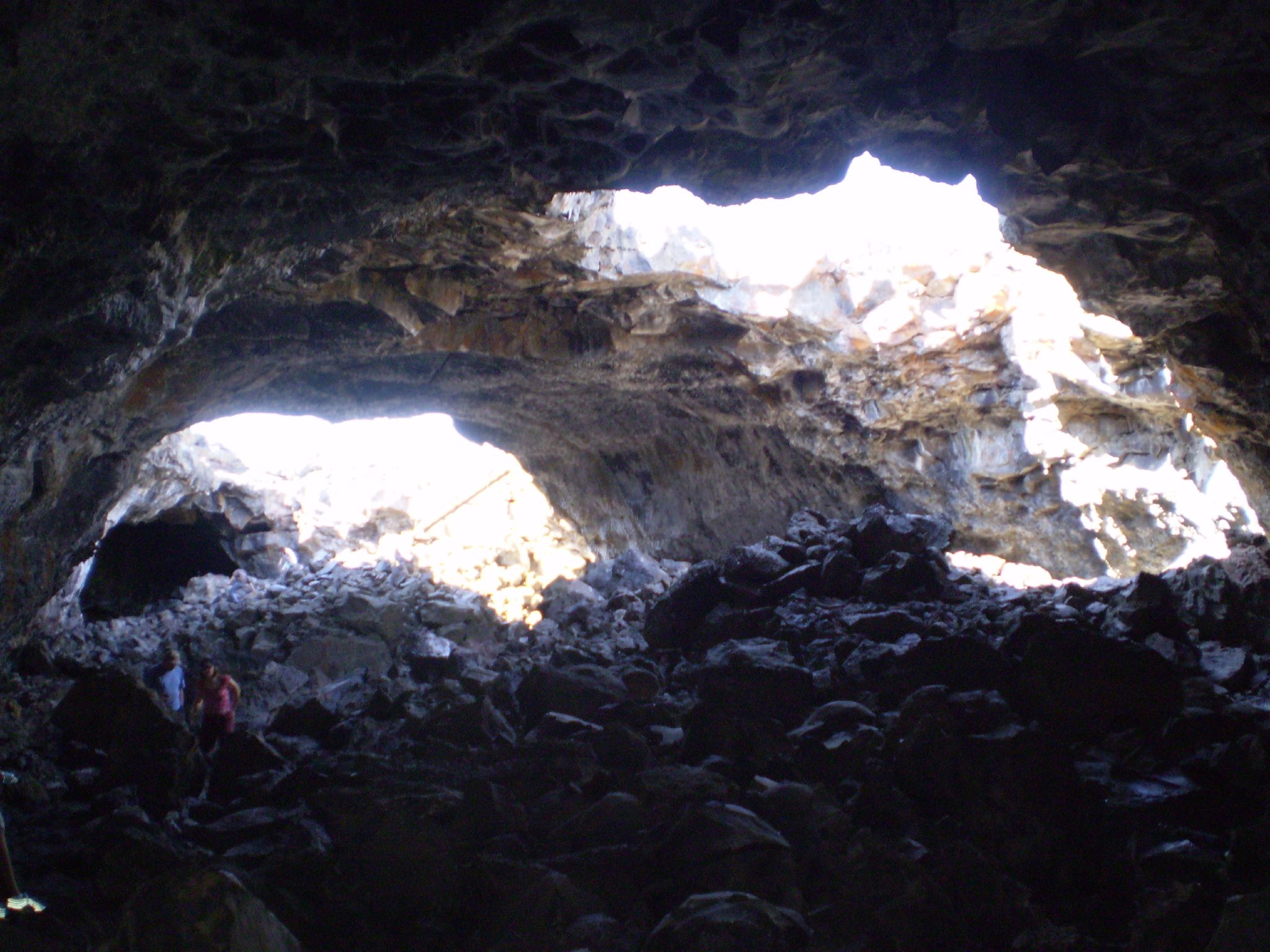 Craters of the Moon National Monument, Idaho, USA. The image shows the inside of Indian Tunnel, a lava tube that is accessible for visitors.